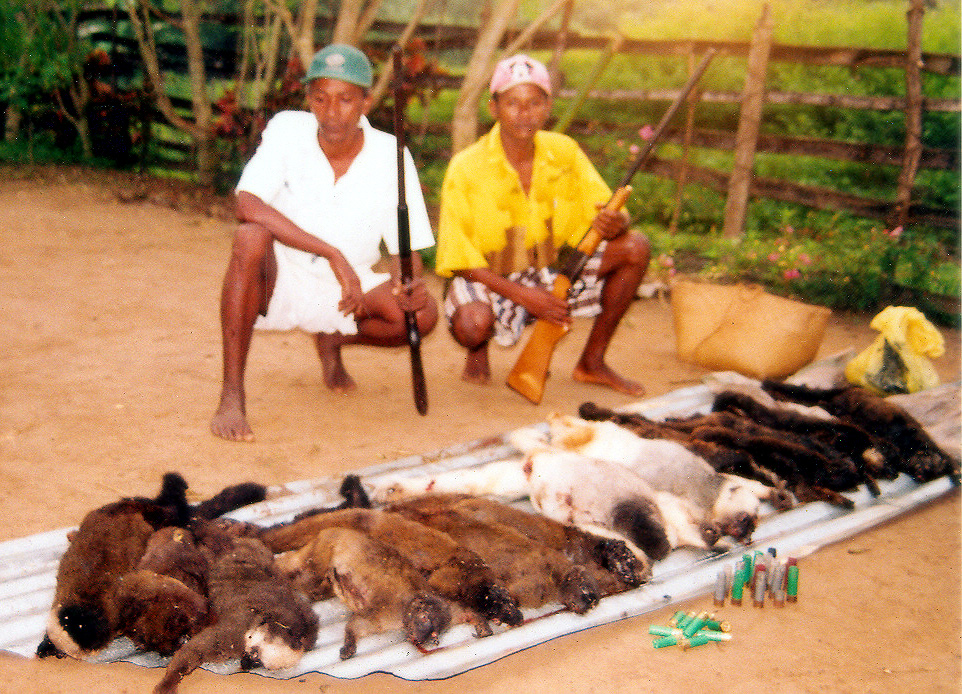 photo i took of silky sifakas and white fronted brown lemurs that were shot by hunters in order to be sold for food.